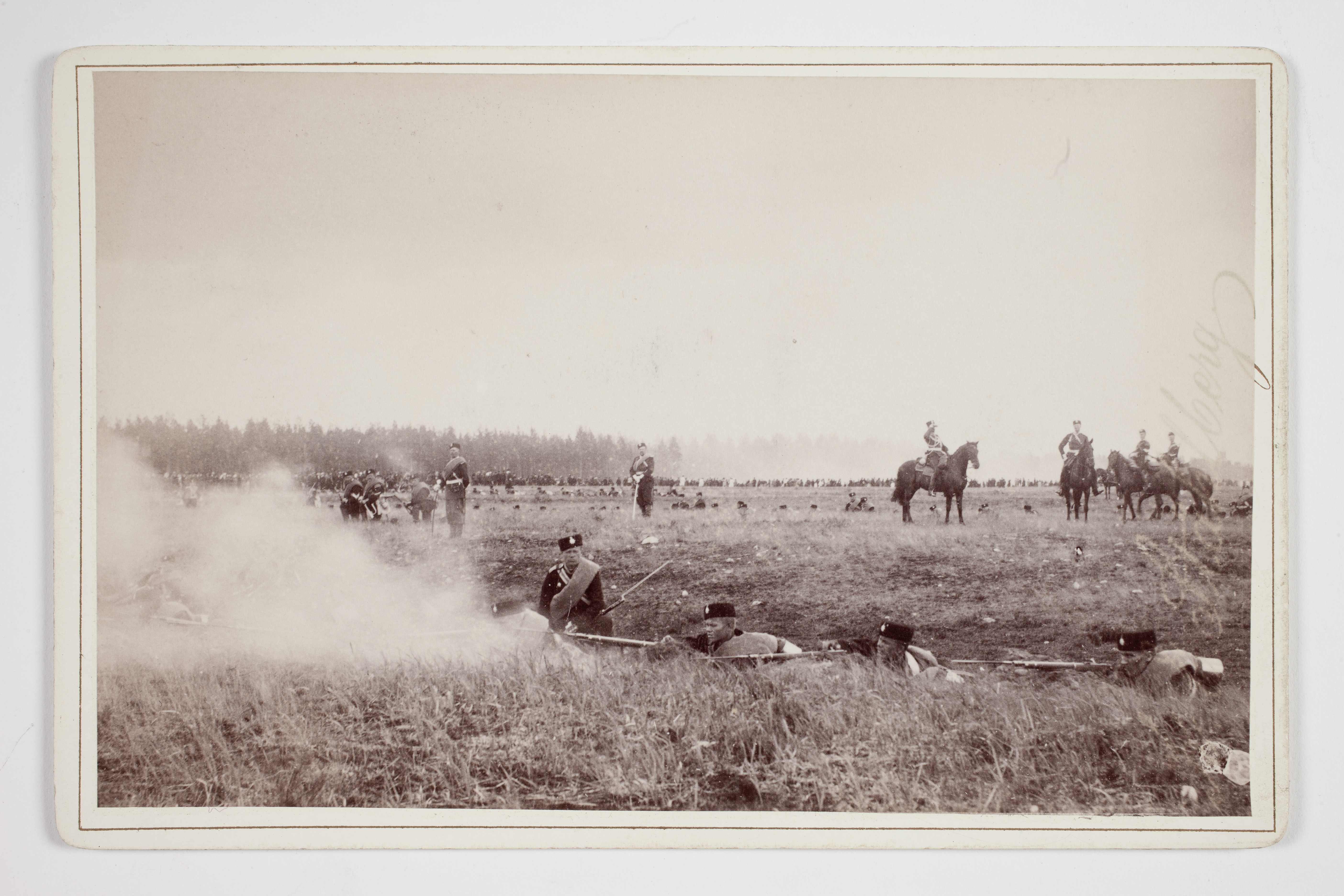 Krigsscen med hästar, eventuellt Villmanstrand 1891? kabinettkort Foto: Atelier K. E. Ståhlberg Helsingfors, Finland Svenska litteratursällskapet i Finland